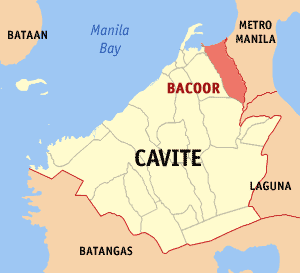 Map of Cavite showing the location of Bacoor.